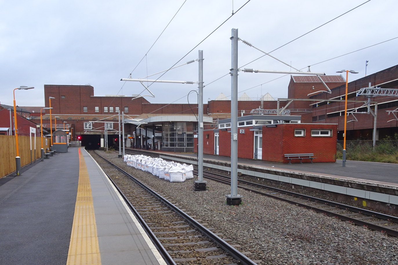 Walsall railway station, West Midlands Opened in 1849 by the South Staffordshire Railway on its line from Lichfield Trent Valley to Dudley, this station is now mainly served by trains from Birmingham to Rugeley. View north east towards Birchills and Rugeley (and formerly Lichfield). A new shopping centre was built above part of the station in 1980. The line was electrified in 1966, initially only the platform on the far right. The other platforms were electrified in 2018 when the wiring was extended to Rugeley Trent Valley.